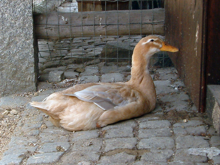 A female Saxony duck, Görlitz Zoo, 8 June 2011